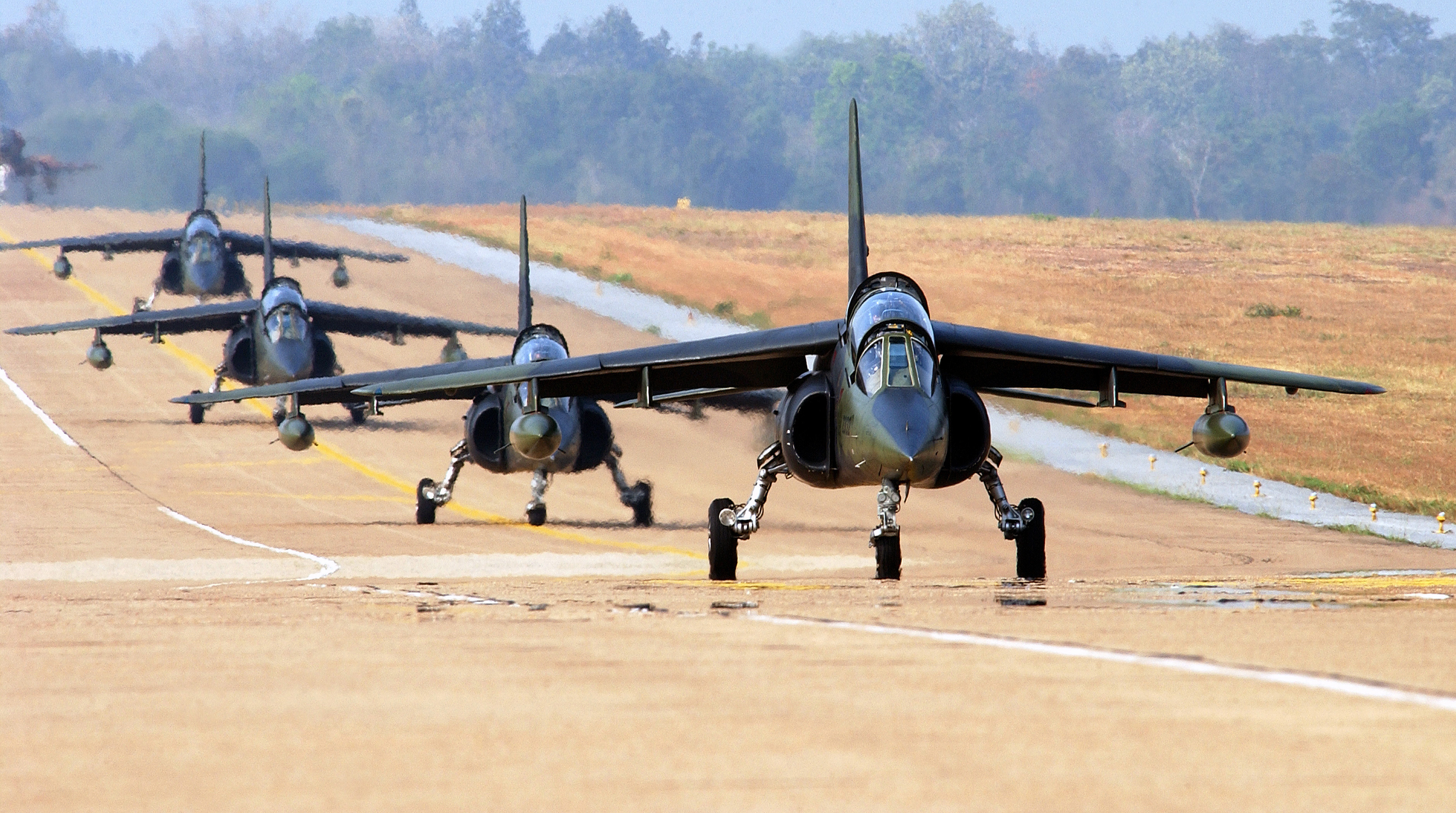 Four Royal Thai Air Force (RTAF) Dornier Alpha Jet A trainers from the 231st Squadron, 23rd Wing based at Udon Thani Royal Thai Air Force Base (RTAFB), taxi on the runway at Korat RTAFB, Thailand, during exercise "Cope Tiger 2003" on 26 February 2003. The RTAF operates 20 Alpha Jets bought from Germany in 2000. A McDonnell Douglas A-4SU Skyhawk is barely visible in the background.